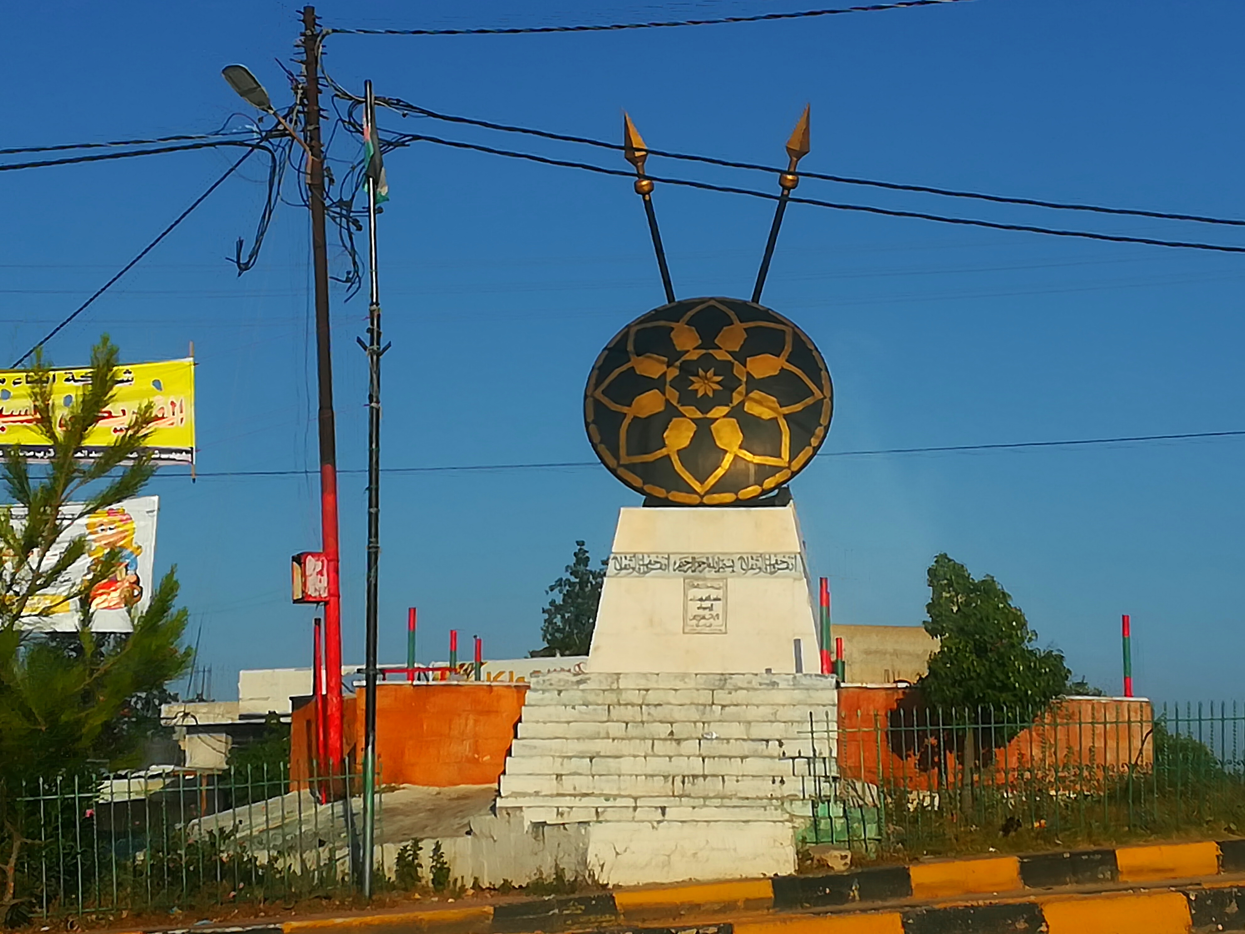 Malka village in northern Jordan